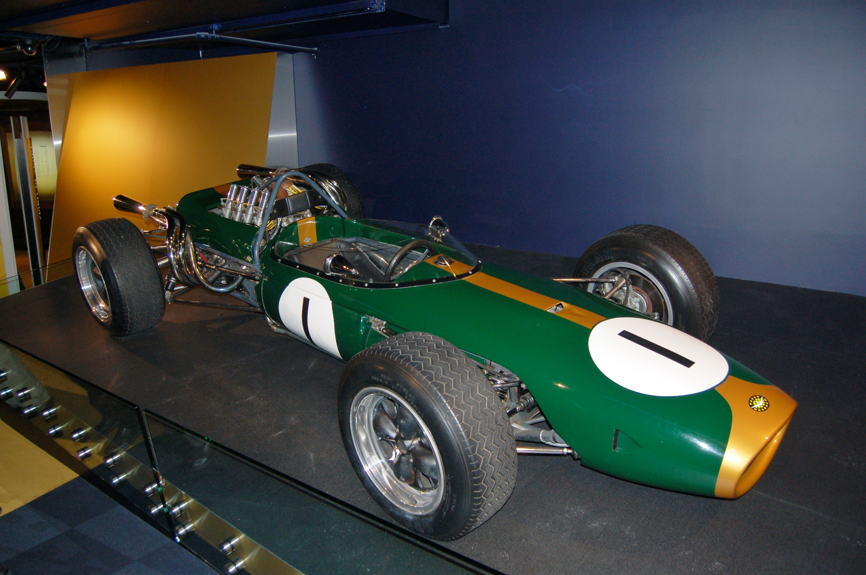 The Brabham BT19 on display at the National Sports Museum, Melbourne, Australia.